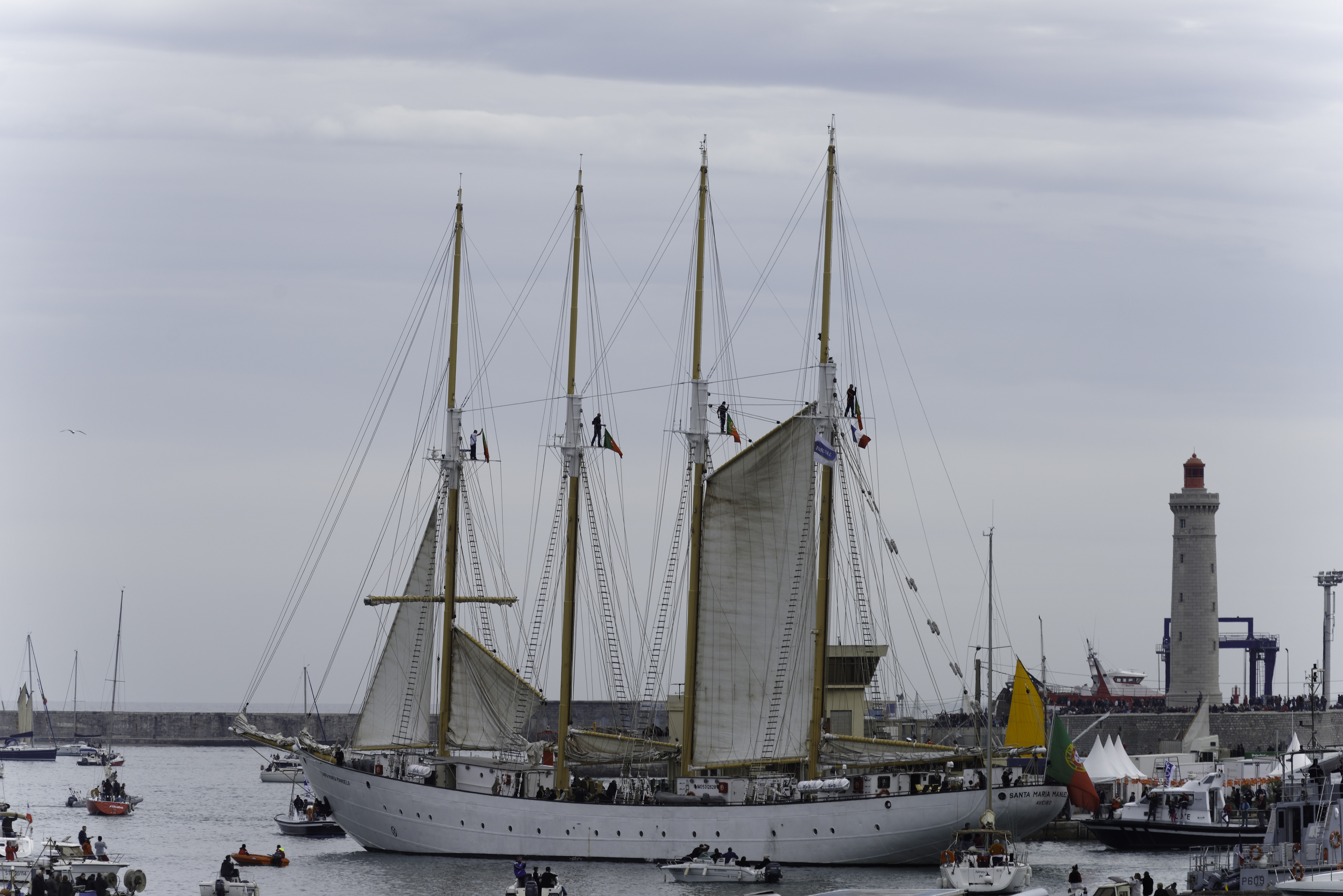 Santa Maria Manuela (ship, 1937). During the event "Escale à Sète 2016". Sète, Hérault, France